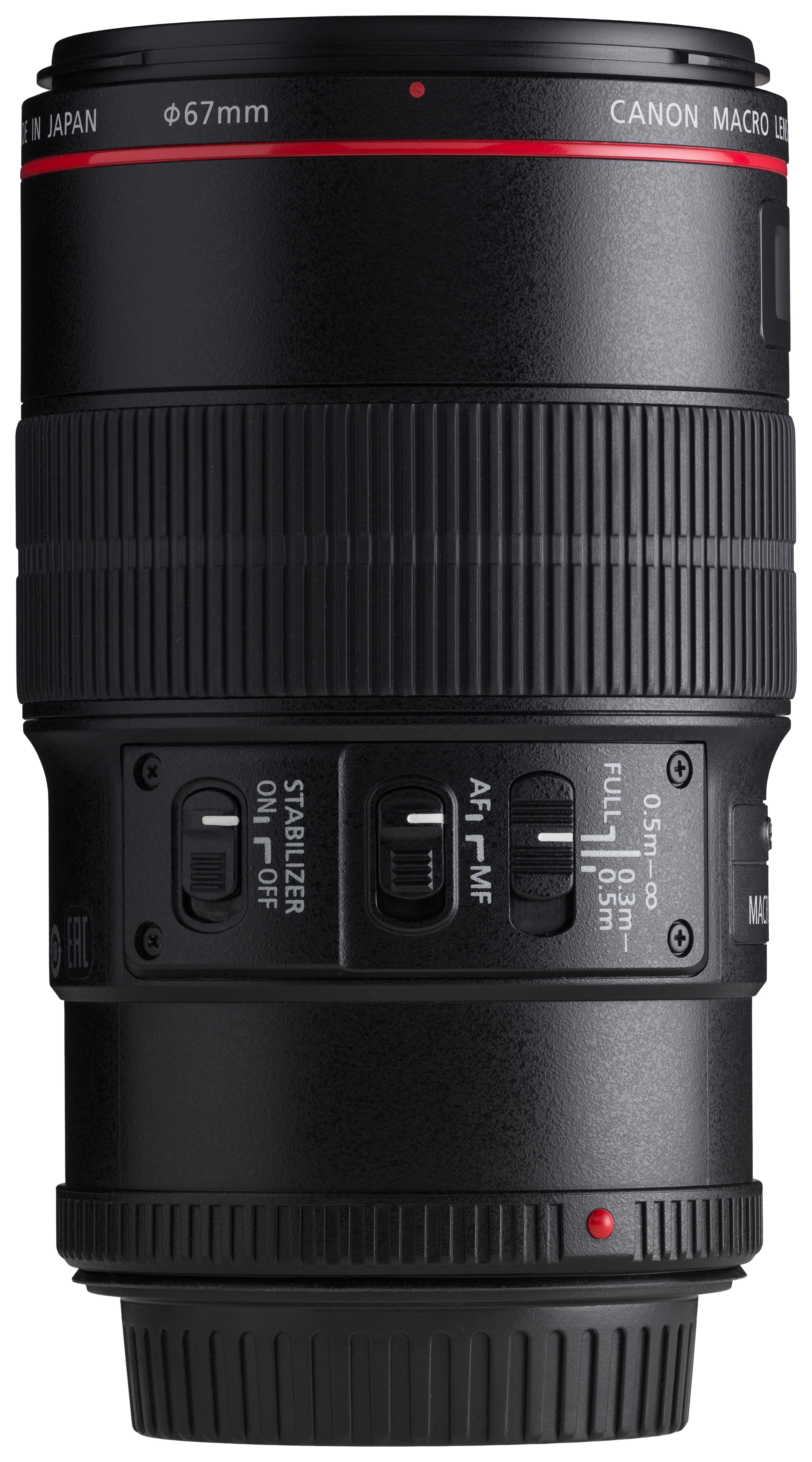 Canon 100 mm L macro lens for DSLR cameras